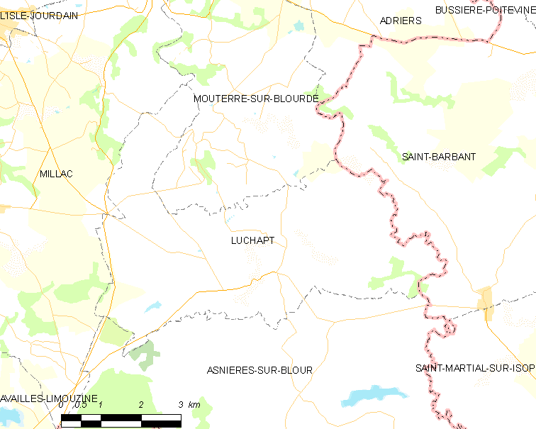 Map of French municipality Luchapt